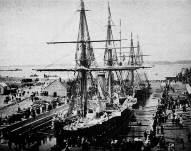 The Calliope Dock at the later Devonport Naval Base, New Zealand, 1888. Shown are the Royal Navy corvettes HMS Calliope and HMS Diamond, with the photographer looking east. The image was previously captioned: "The Calliope Dock at Devonport, Auckland, at its opening in February 1888. The warships are the corvettes Calliope and Diamond".